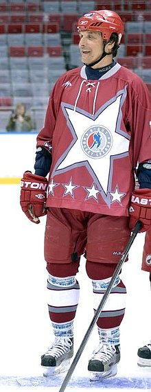 Valeri Kamensky on Friendly Match of National Hockey Stars. Ice arena "Bolshoy", Sochi, 4 Jan 2014